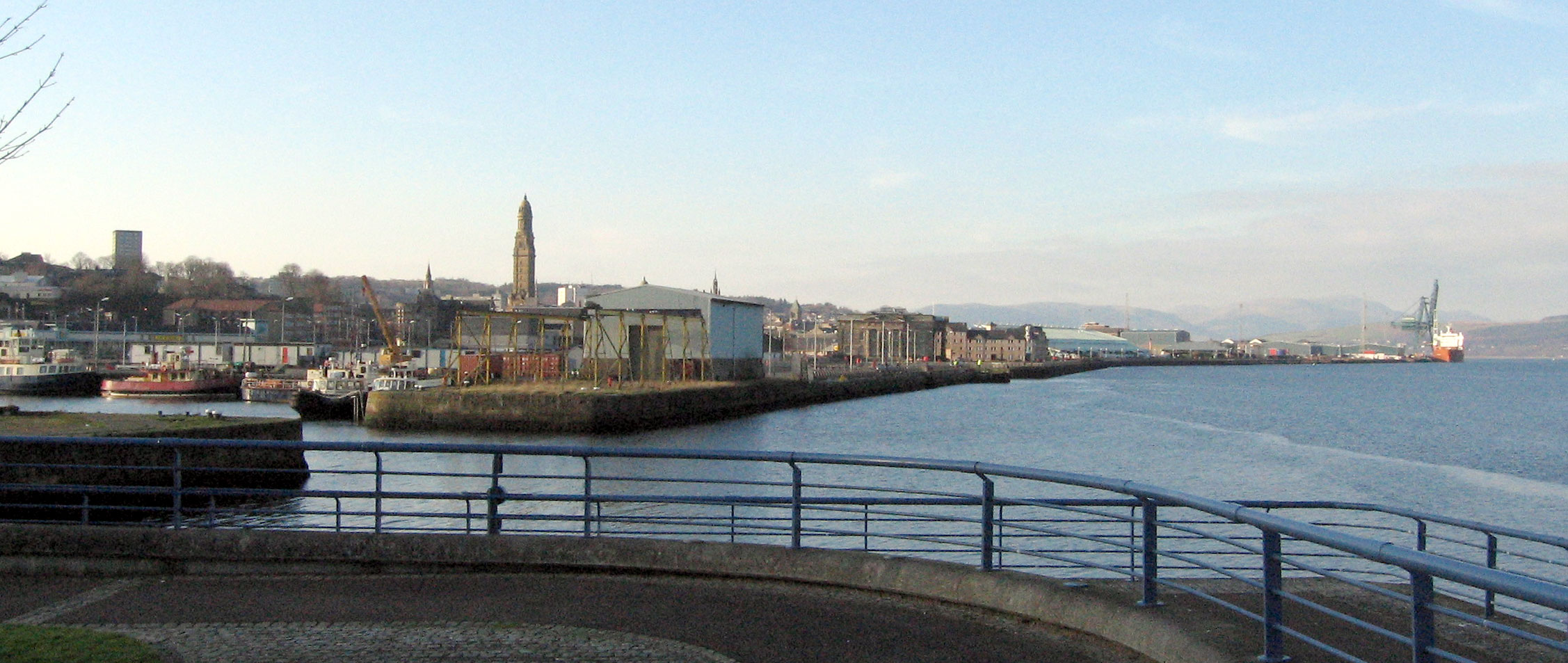 Greenock waterfront: view from call centre car park, site formerly Scott Lithgow's shipyard, with the Inverclyde Coastal Path in the foreground. Showing from left to right; Victoria harbour with Clyde Marine ferry boats, Victoria tower of Municipal Buildings, Custom House at Custom House Quay, Watt College student accommodation, swimming pool / ice rink, cinema and Ocean Terminal with cranes loading a container ship photograph taken in January 2006 by User:Dave souza. Any re-use to contain this licence notice and to attribute the work to User:Dave souza at Wikipedia.